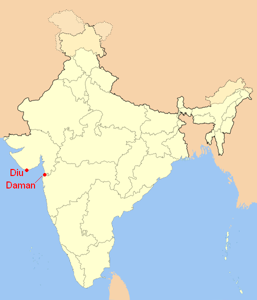 locator map of Daman and Diu (union territory of India); self-made using Image:India-locator-map-blank.svg Lagekarte von Daman und Diu (indisches Unionsterritorium); selbst erstellt auf der Grundlage von Image:India-locator-map-blank.svg